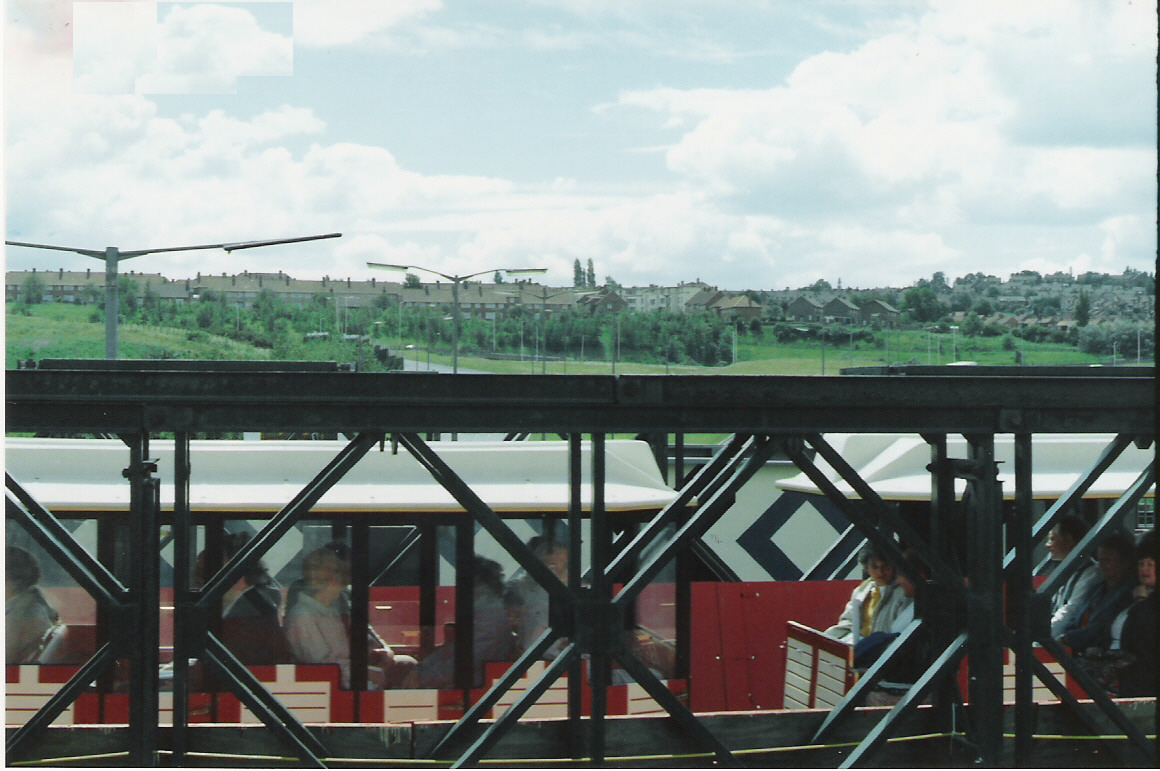 The National Garden Festival at Gateshead 1990 included a pedestrain bridge across A184 [designation at 6Feb2019] adjacent to the Festival railway bridge and this is a view south to Lobley Hill over the A1 London-Edinburgh road